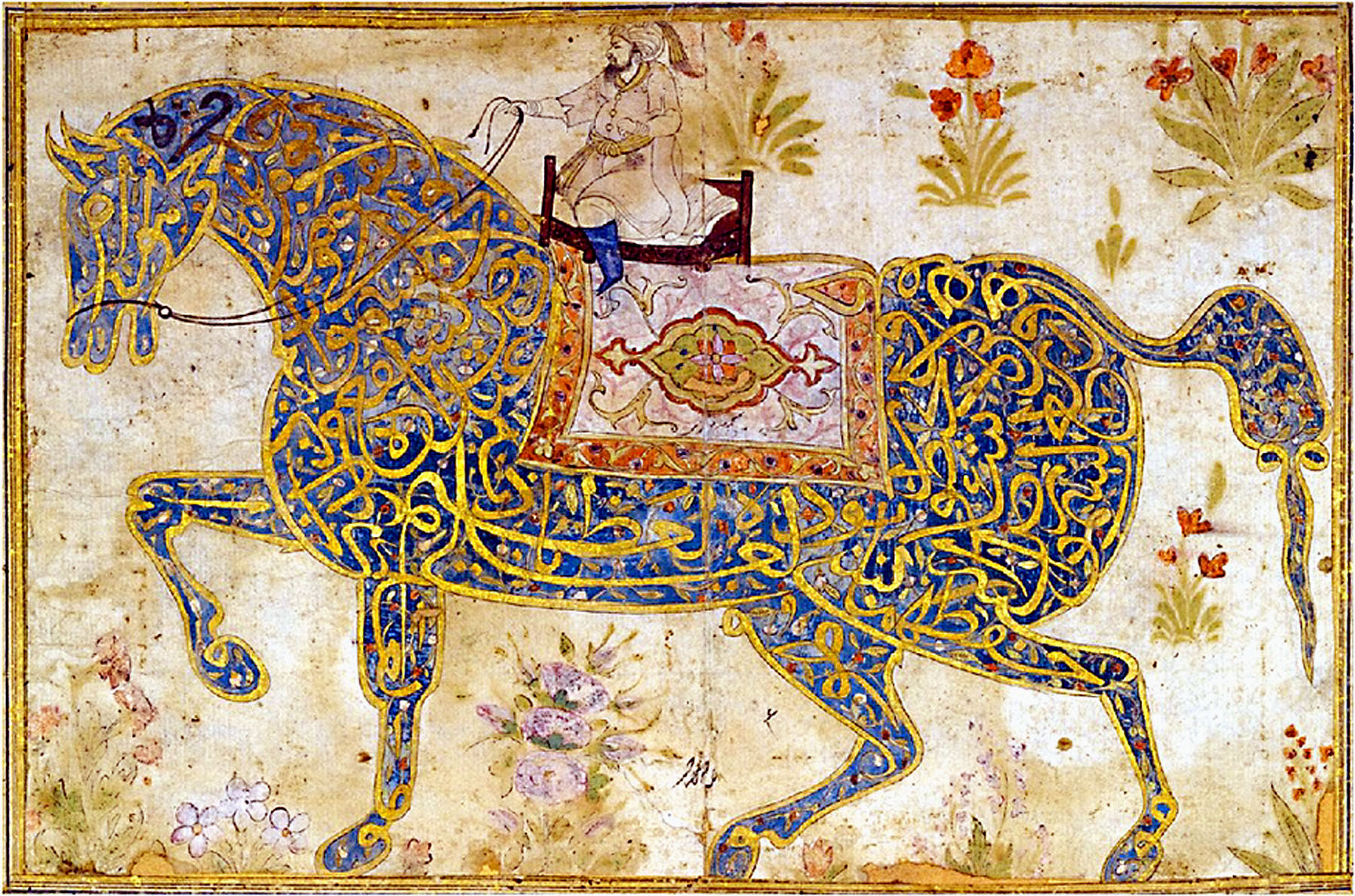 This is a derivative worked based on the source file. Anonymous - The Throne Verse (Ayat Al-Kursi) in the form of a calligraphic horse (India, Deccan, Bijapur) - 16th century. The image has been enlarged for print purposes, colors auto-balanced, and sharpness lightly enhanced.